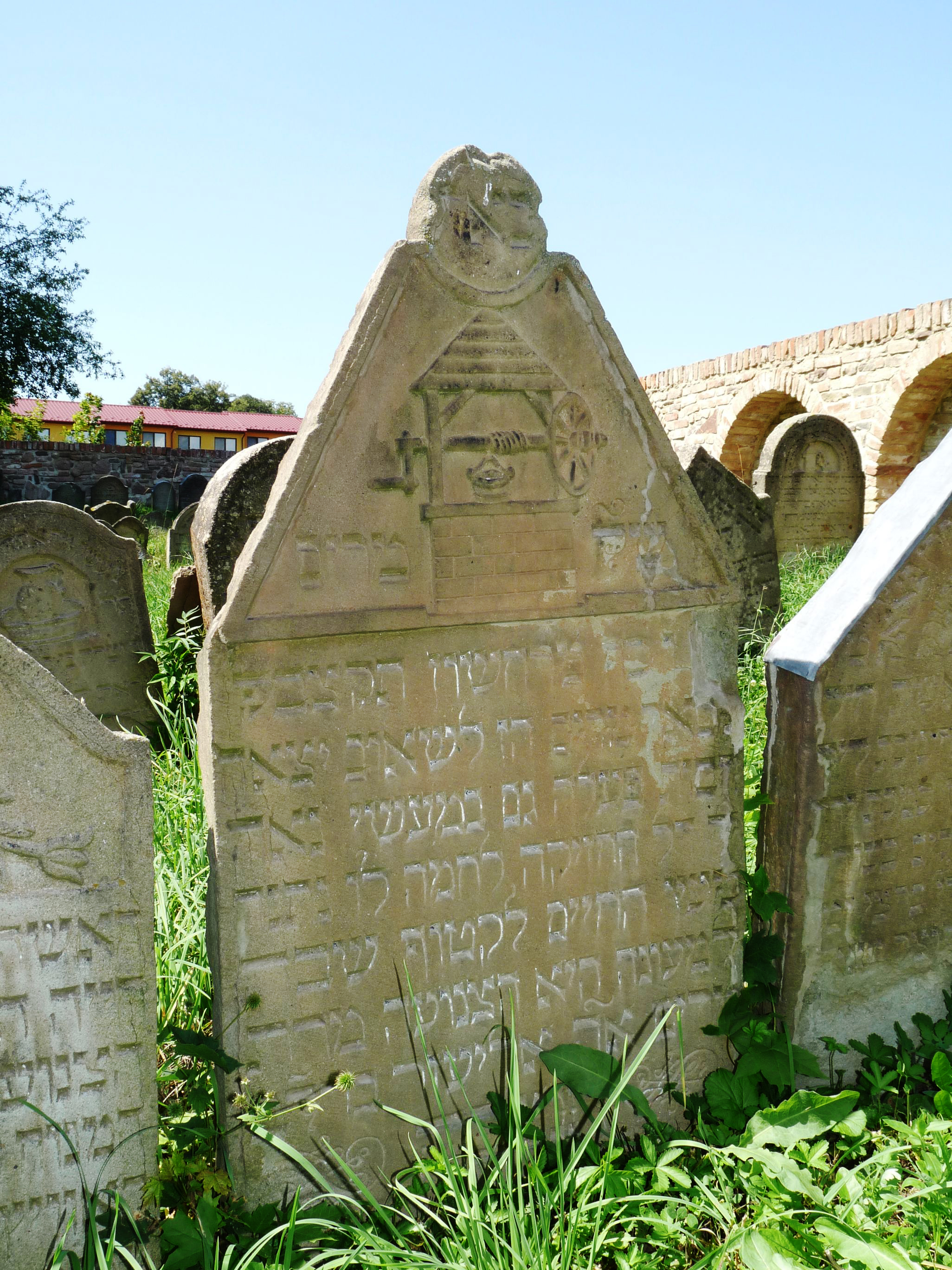 Jewish cemetery in the town of Ivančice, Brno-Country District, Czech Republic.